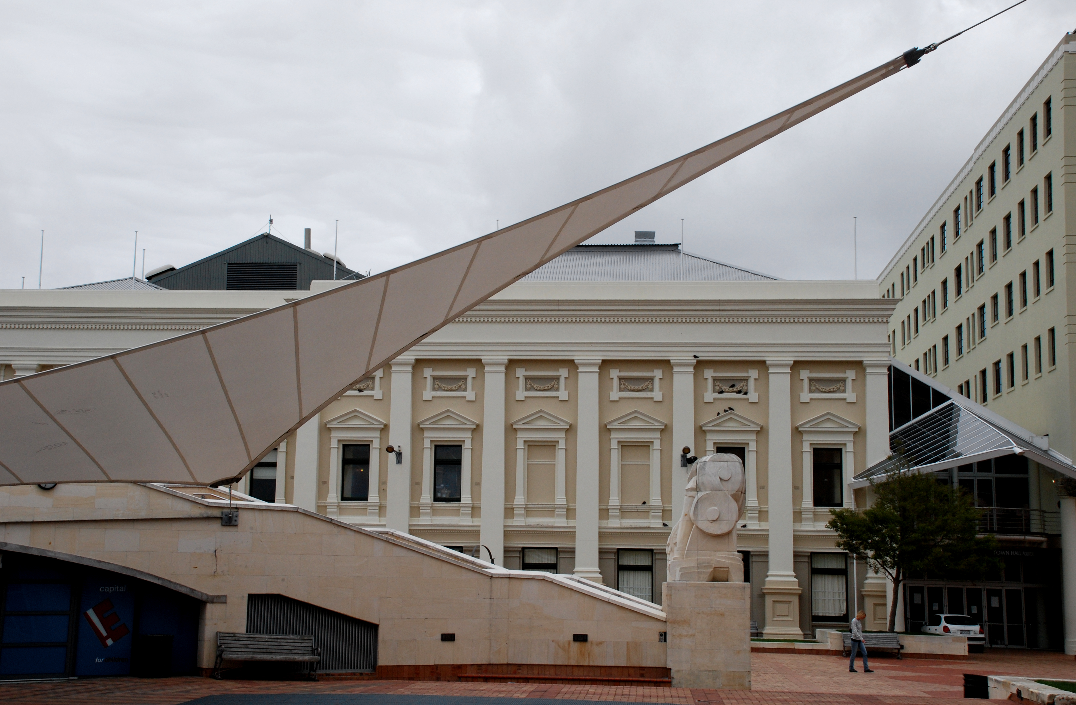 Wellington Town Hall, Wellington, New Zealand.